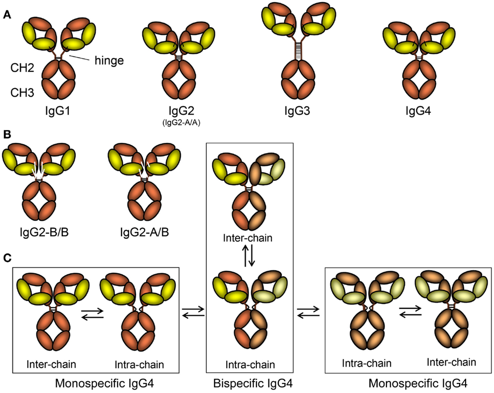 The schematic layout of the IgG subclasses and isomers thereof. (A) The IgG subclasses, indicating how the different heavy and light chains are linked, the length of the hinge, and the number of disulfide bridges connecting the two heavy chains.